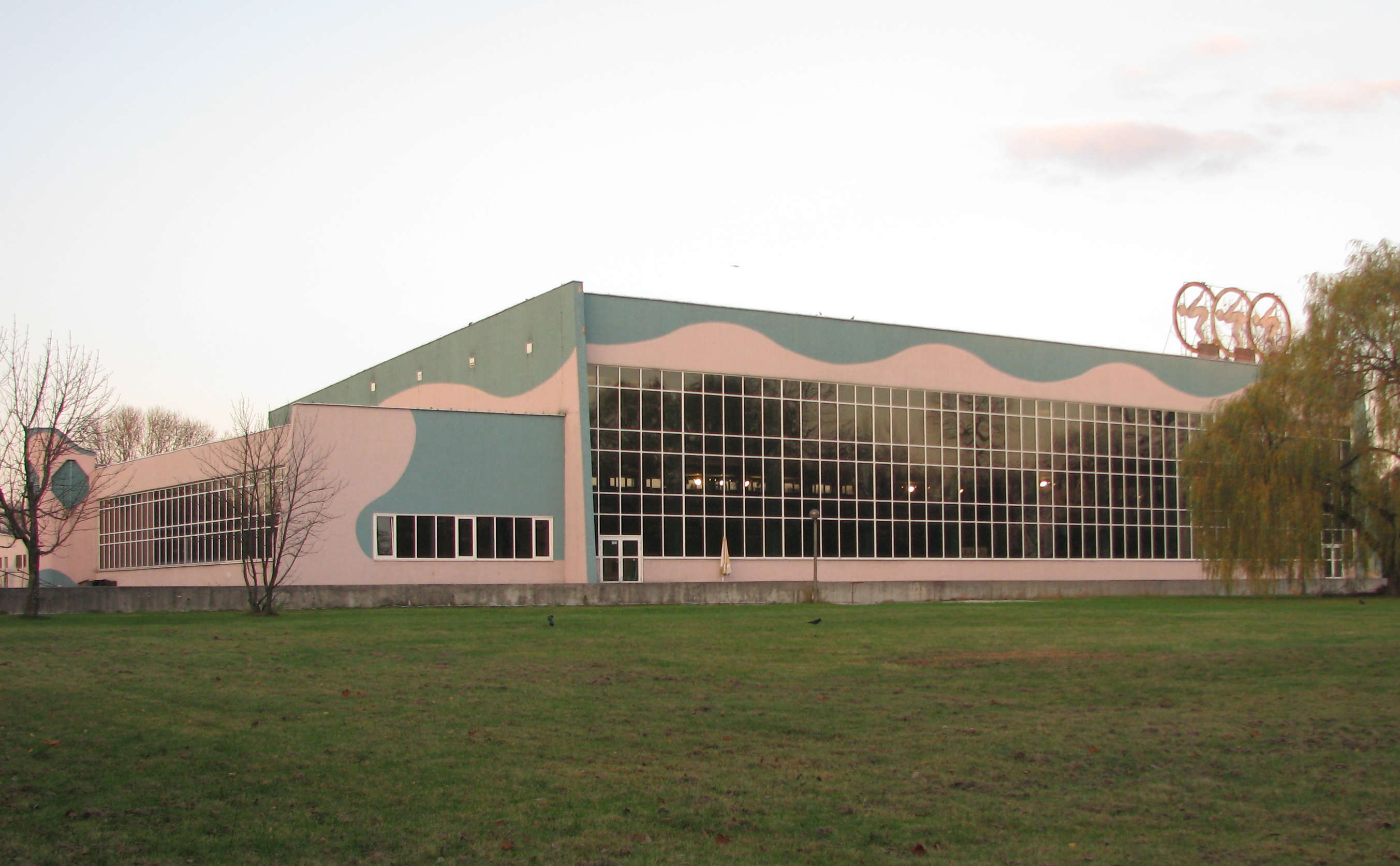 Swimming pool in Oświęcim, Poland